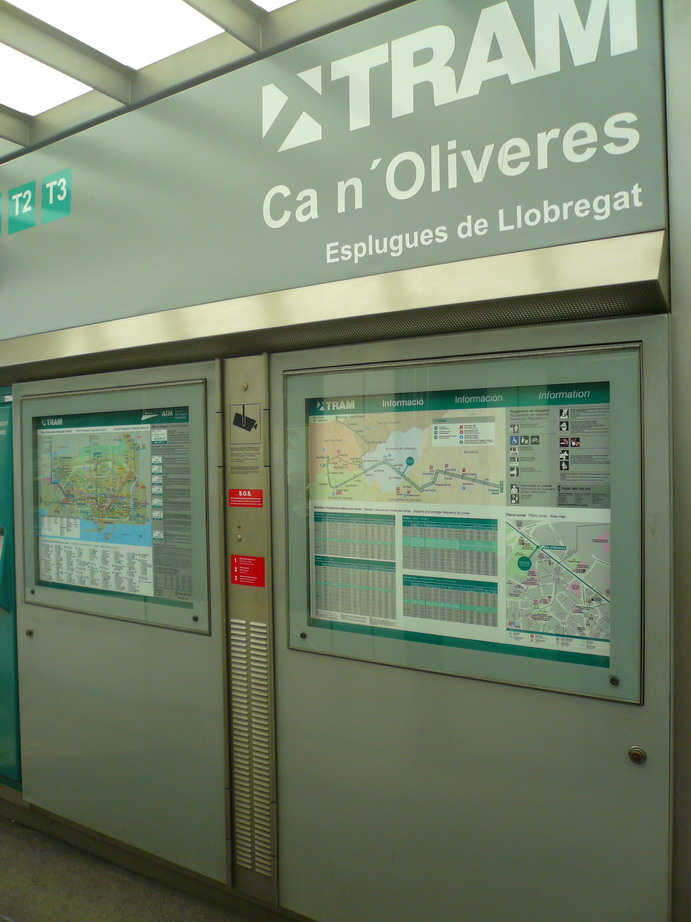 Ca n'Oliveres station.